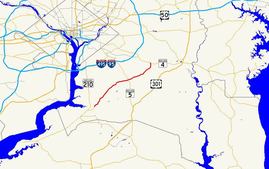 Map of Maryland Route 223